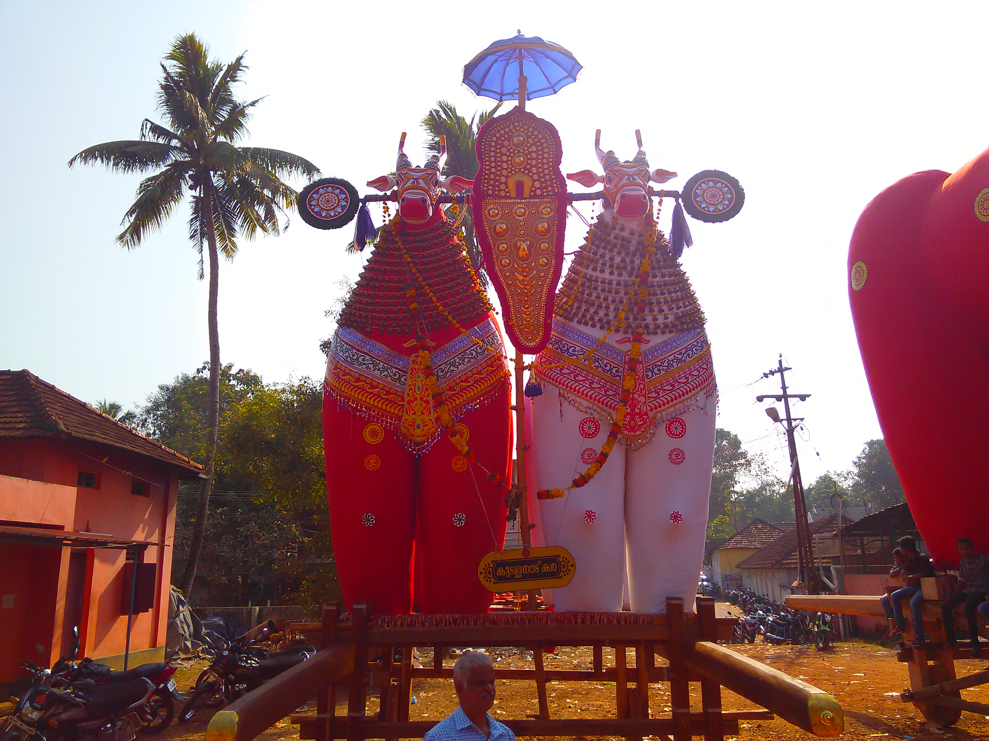 kudassanad kara is one of the kara (territory) of Padanilam Parabrahma Temple.